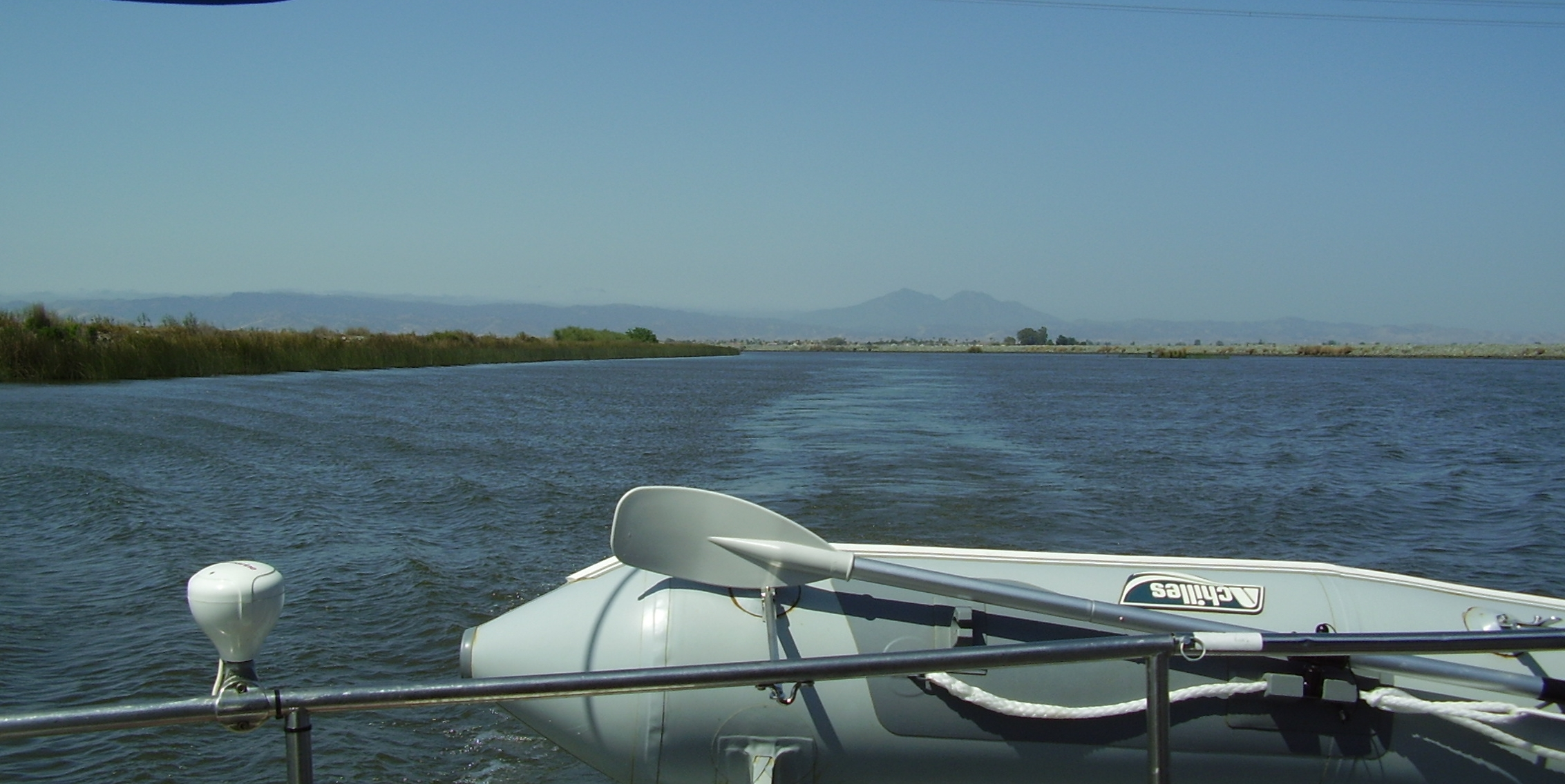 In the Middle River, a part of the Sacramento-San Joaquin River Delta. With a view of Mount Diablo.